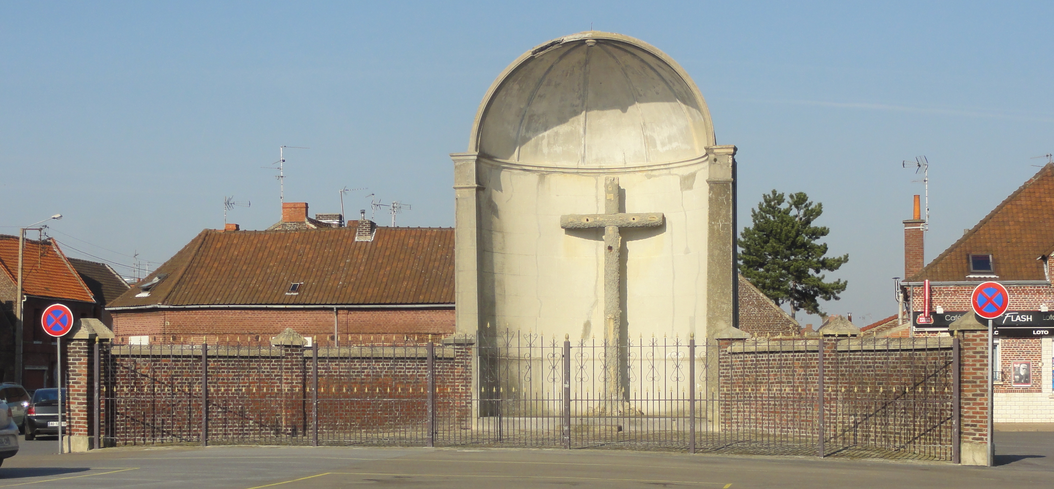 Depicted place: Somain